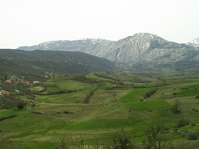 Edge of "Gačko polje", morphologically not the karst field, Bosnia and Herzegovina